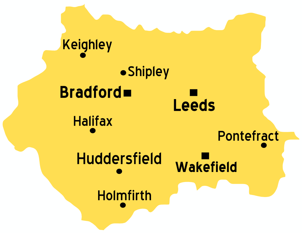 Map of West Yorkshire Source: :Image:UK map.svg